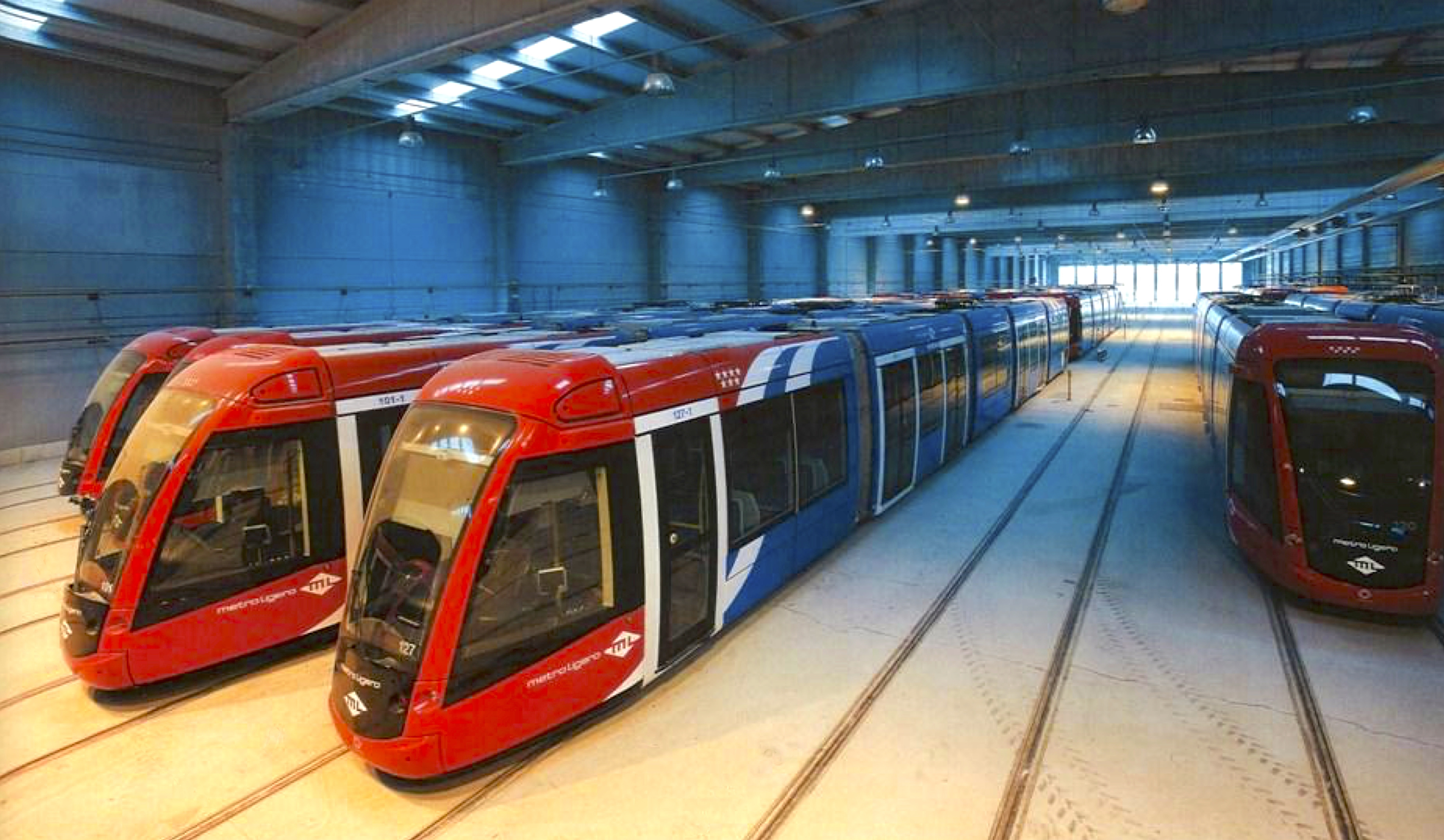 Red-fronted blue Alstom Citadis 302 trams (23 five-segment cars), all bearing a "Metro Ligero" logo, in a large storage hangar in Madrid, Spain. Nine of the trams were sold to the South Australian Department for Planning, Transport and Infrastructure in 2009 for the Adelaide tramway system.